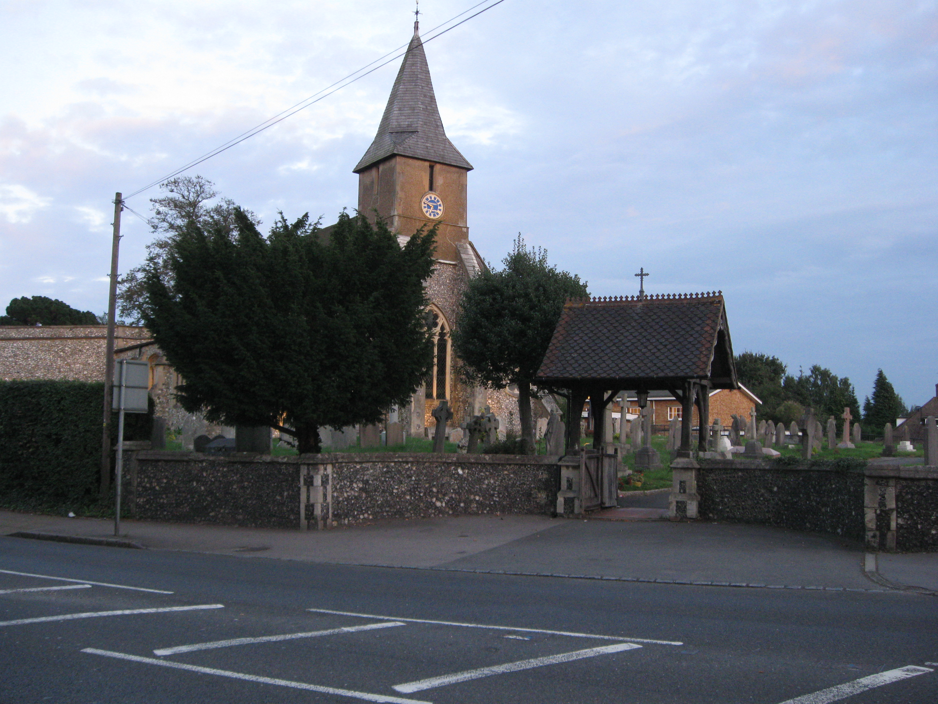 All Saints parish church, Sanderstead, London (formerly Surrey), seen from the west